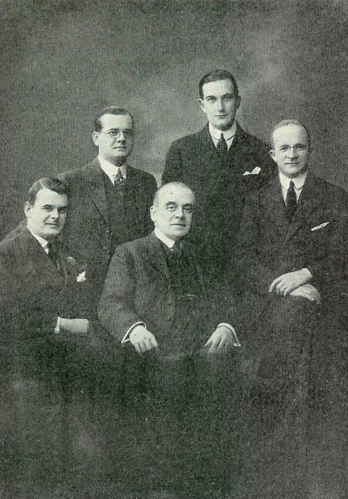 The owners of C.K. Hansen, Danish shipping company, est. 1856, around 1940. Middle: Johan Hansen (1861-1943). Clockwise: Willie C.K. Hansen (1887-1949), Norman H. Hansen (1890-1962), Knud Hansen (1892-1968) and C.J.C. Harhoff (1886-1966).